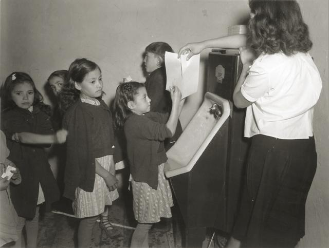 Children washing their hands before lunch. Taken at the Penasco school in Taos County, New Mexico, United States.